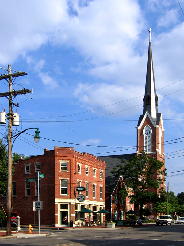 The center of German Village, Columbus, Ohio on Third Avenue. The steeple of St. Mary's (1868) is seen in the background.